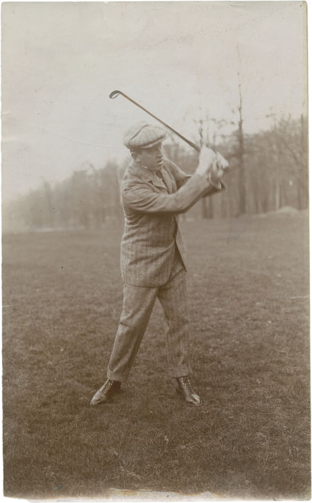 Golfist, industrialist & socialite Eben Byers (1880-1932) in 1920s.